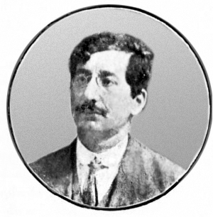 Parsegh Shabaz